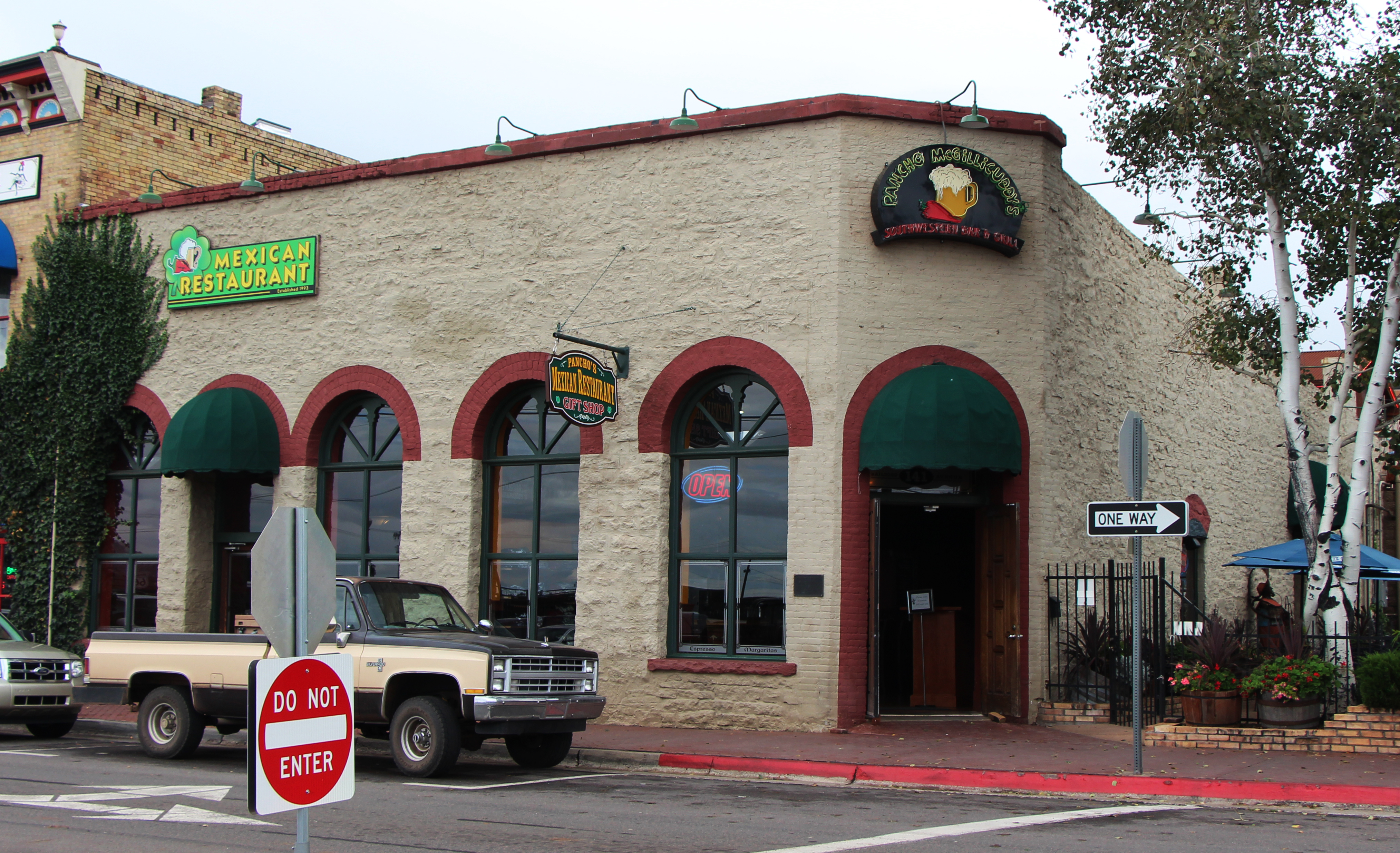 The Cabinet Saloon, 141 W. Railroad Ave., Williams, Az